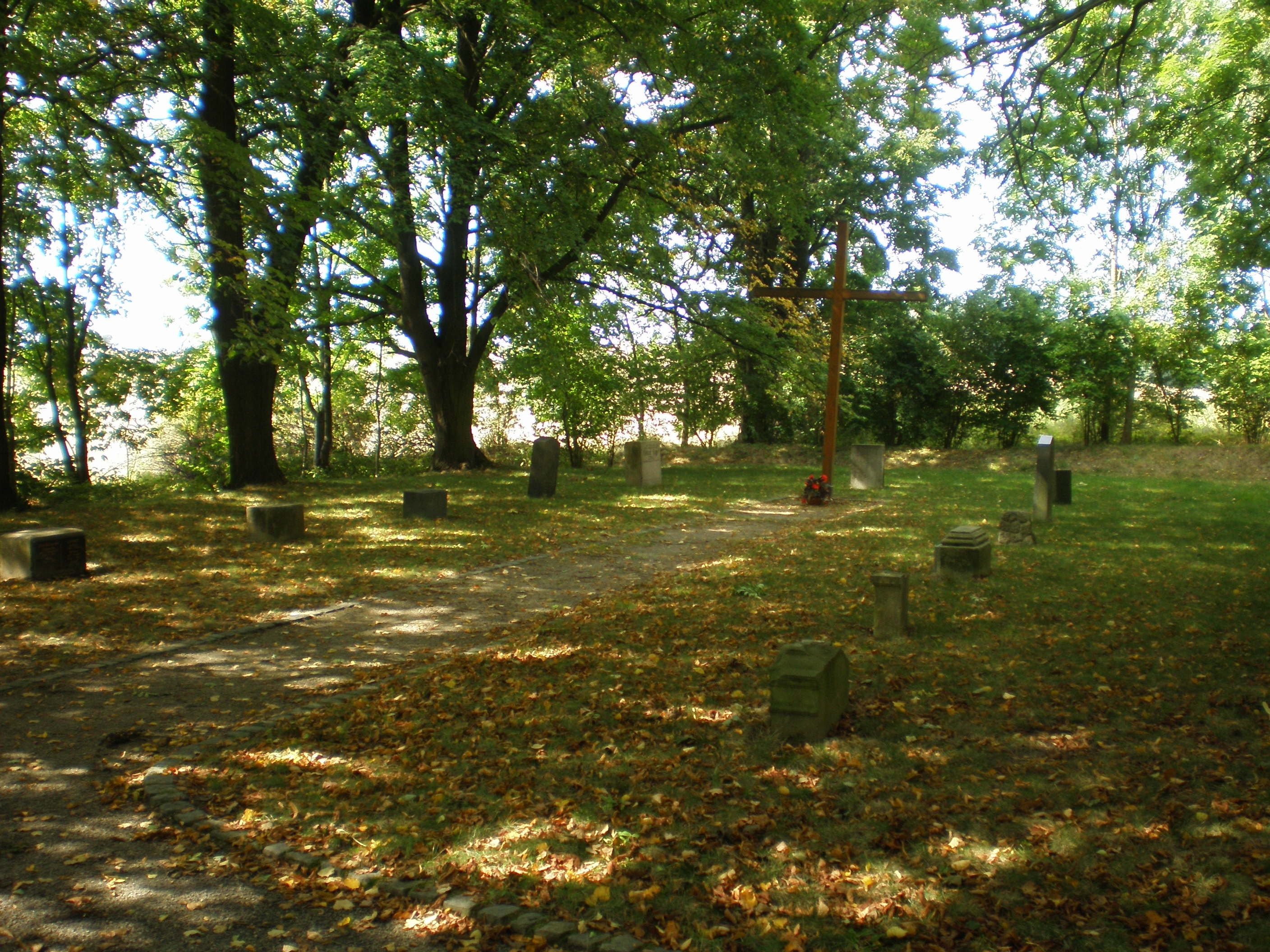 Horní Pelhřimov, Cheb, pieta 2008